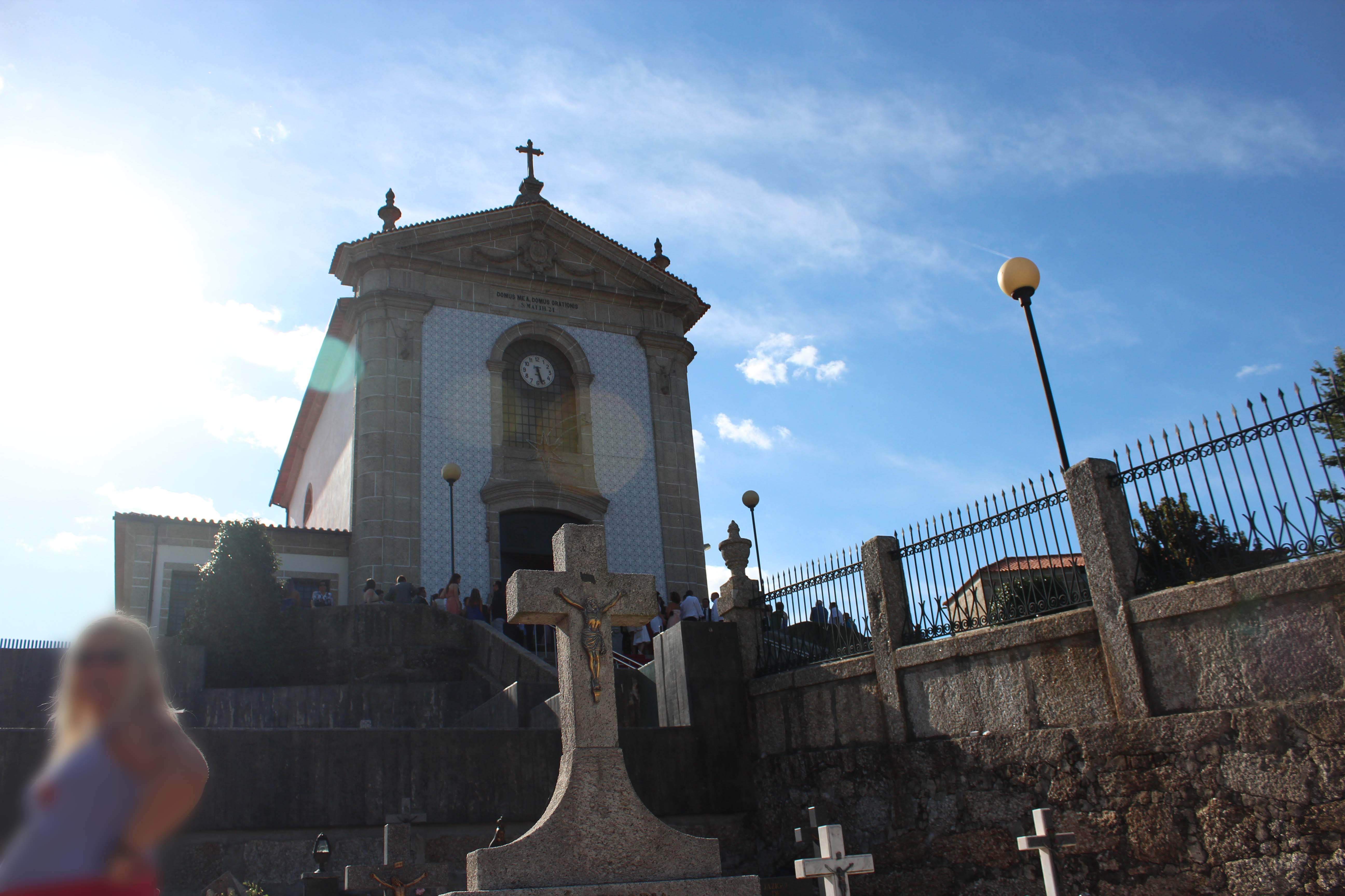 Church in Nespereira (Guimarães)